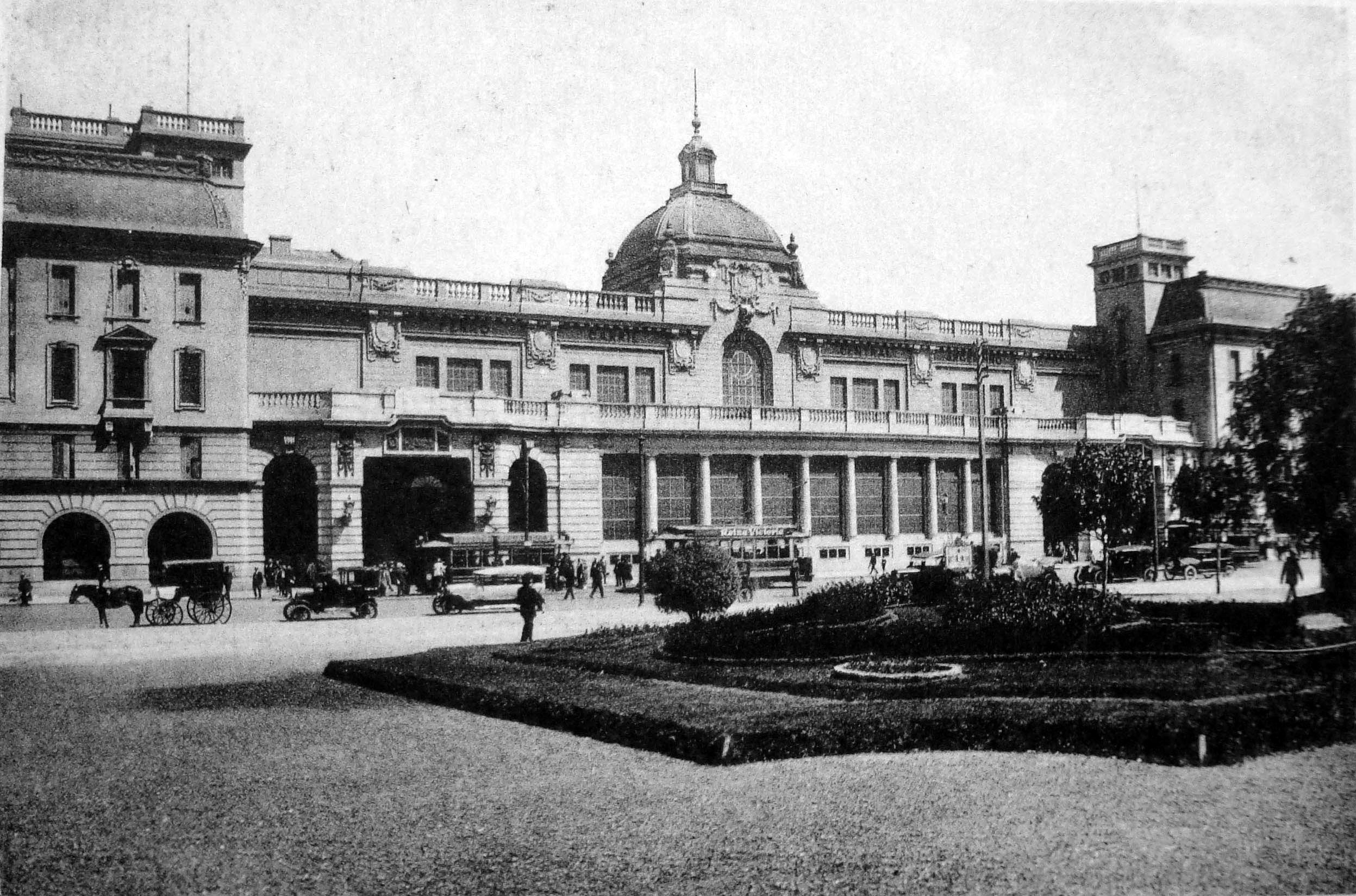 Retiro railway station, few days after being opened in 1915. The station was built by the Central Argentine Railway.